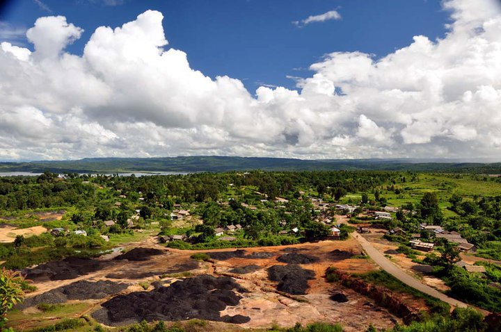 Tin Kilo (three kilometer) is neighbouring village of umrangso